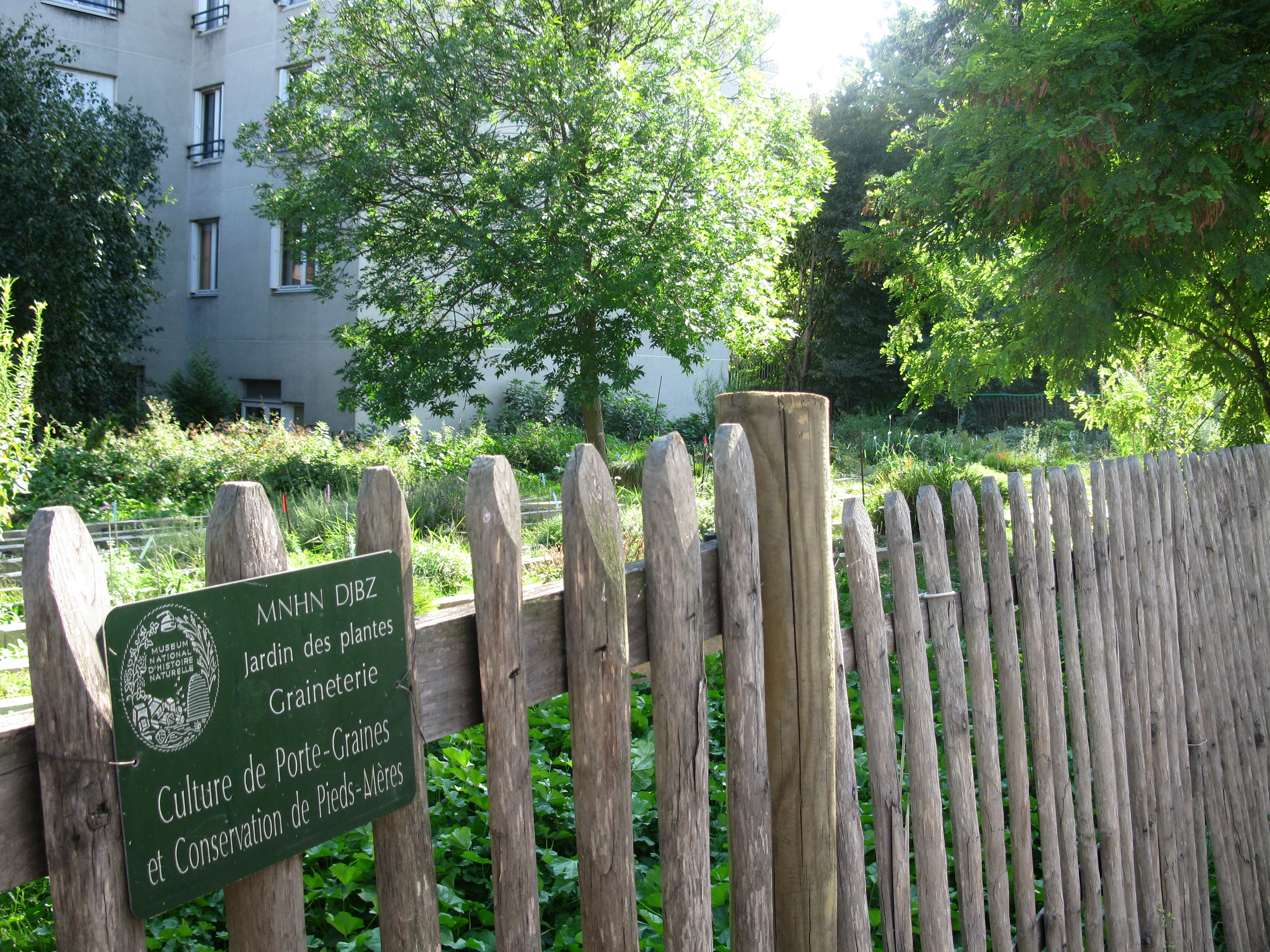 Patrimonial botanic collection, Muséum National d'Histoire Naturelle, Paris